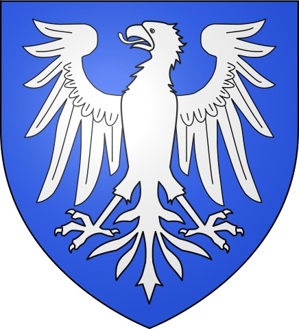 Mjeda family coat of arms